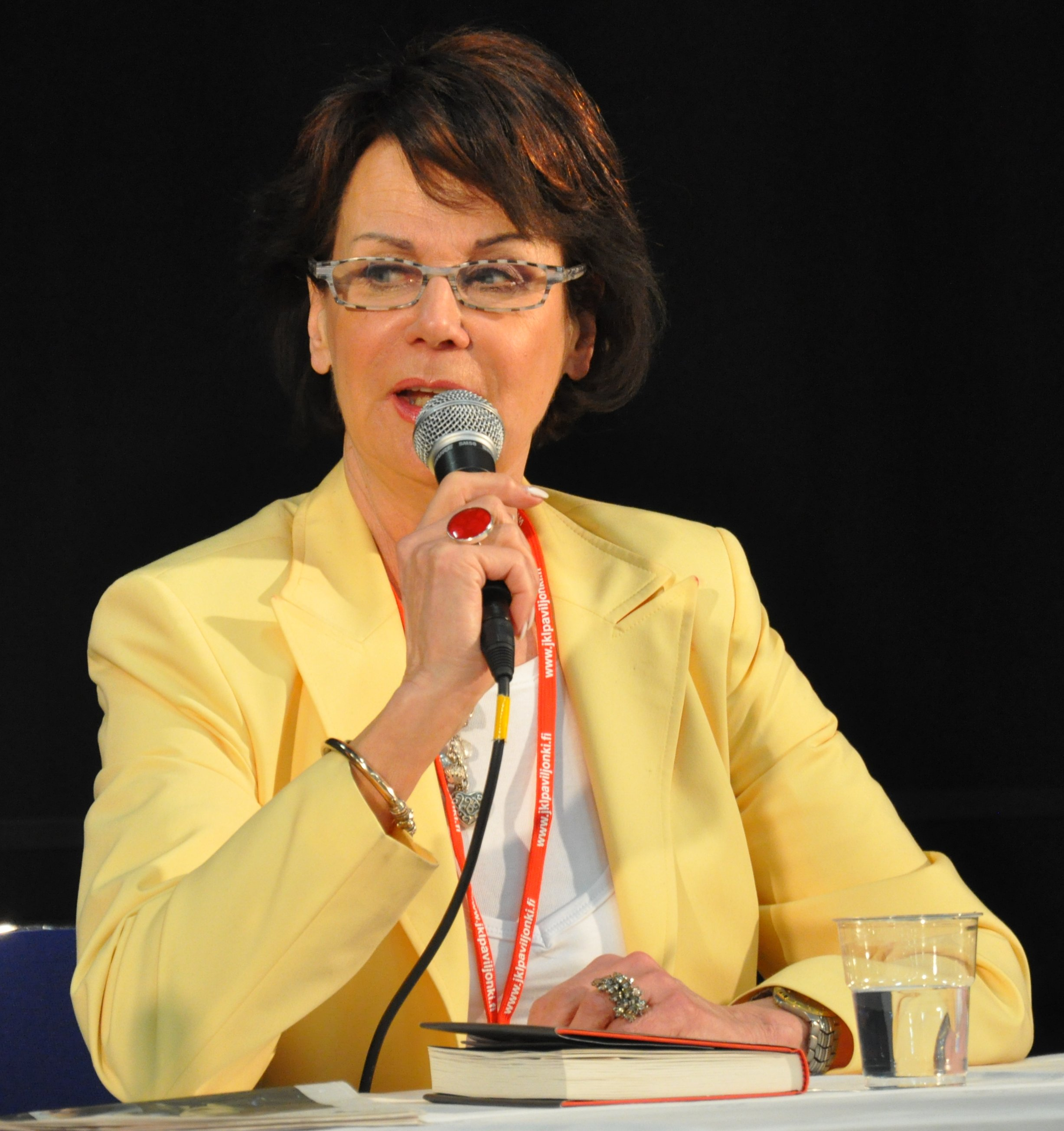 Finnish journalist and former news anchor Pirkko Arstila speaking at the Jyväskylä Book Fair 2009.